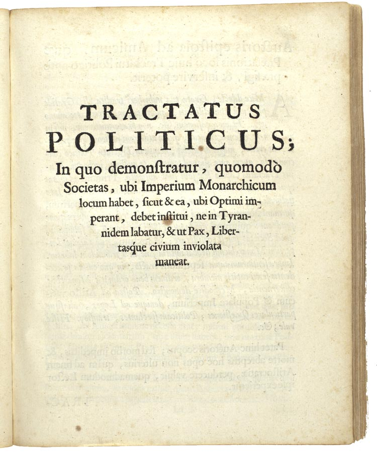 Titlepage of (Baruch Spinoza) Benedictus Spinoza: Tractatus Politicus in the Opera Posthuma.